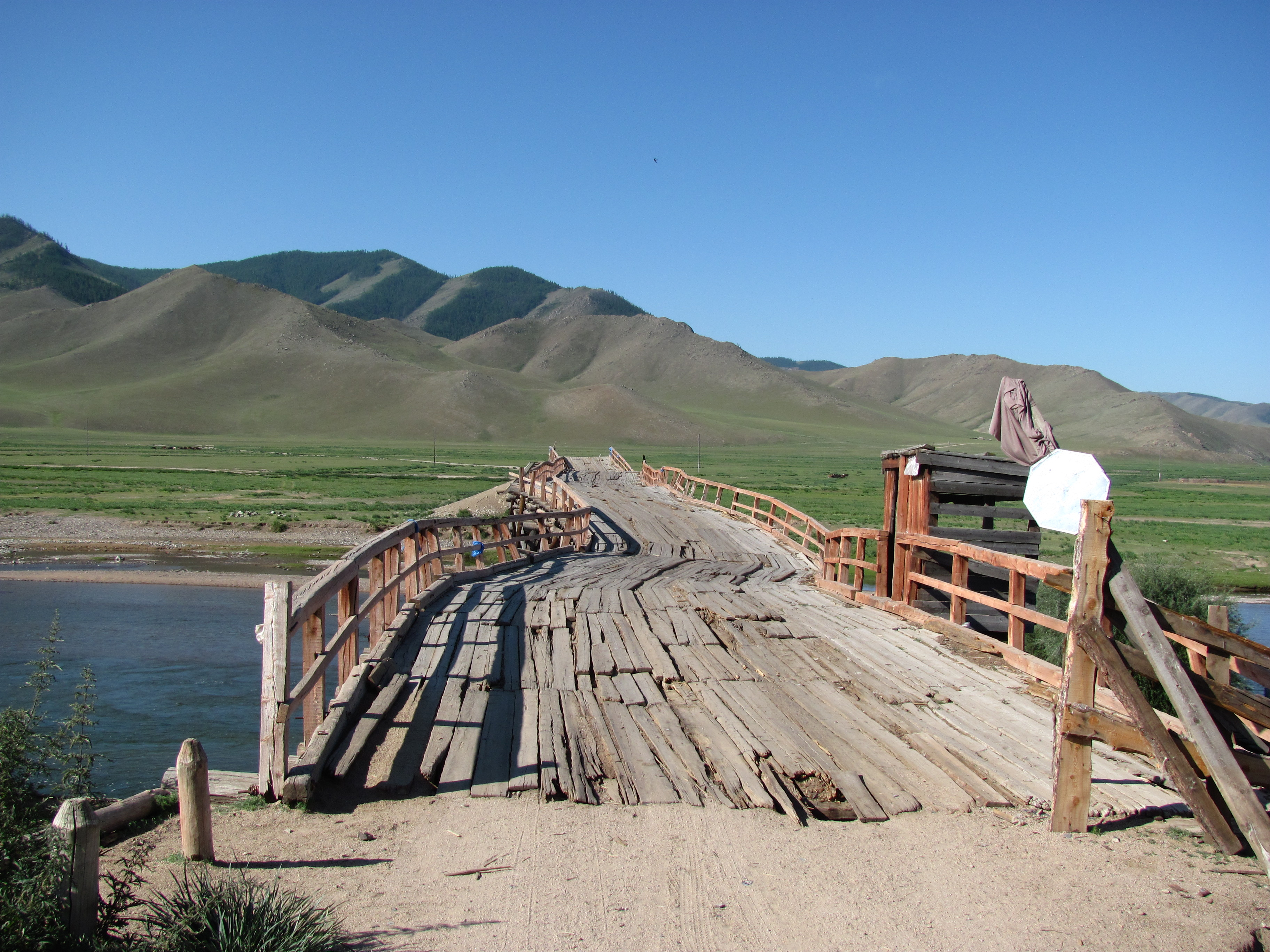 Bridge above Ider River, Jargalant, Khövsgöl Aimag, Mongolia.